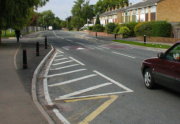 Traffic calming measures (road narrowing and speed bumps) in Yate, near Bristol, England. The speed bumps are reddish, and the narrowed area is blacker than the old pavement. Taken by Adrian Pingstone and released to the public domain.